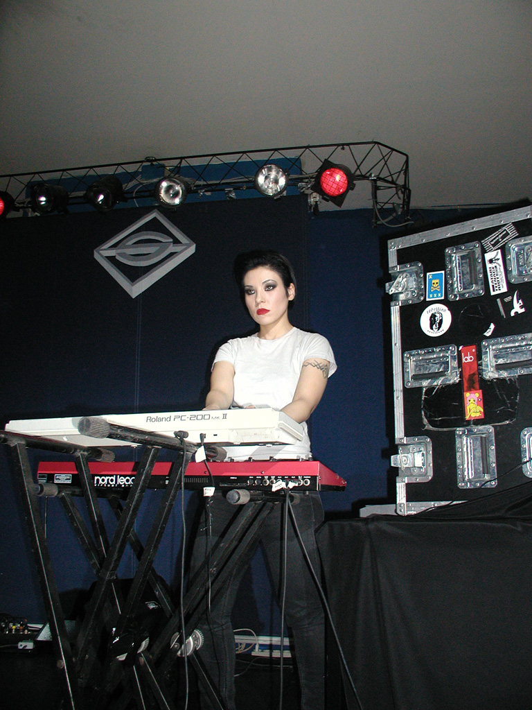 Alec Empire gig at Siddartha 13/01/2007. Concert review at the following page of the Ver Sacrum site: [1].